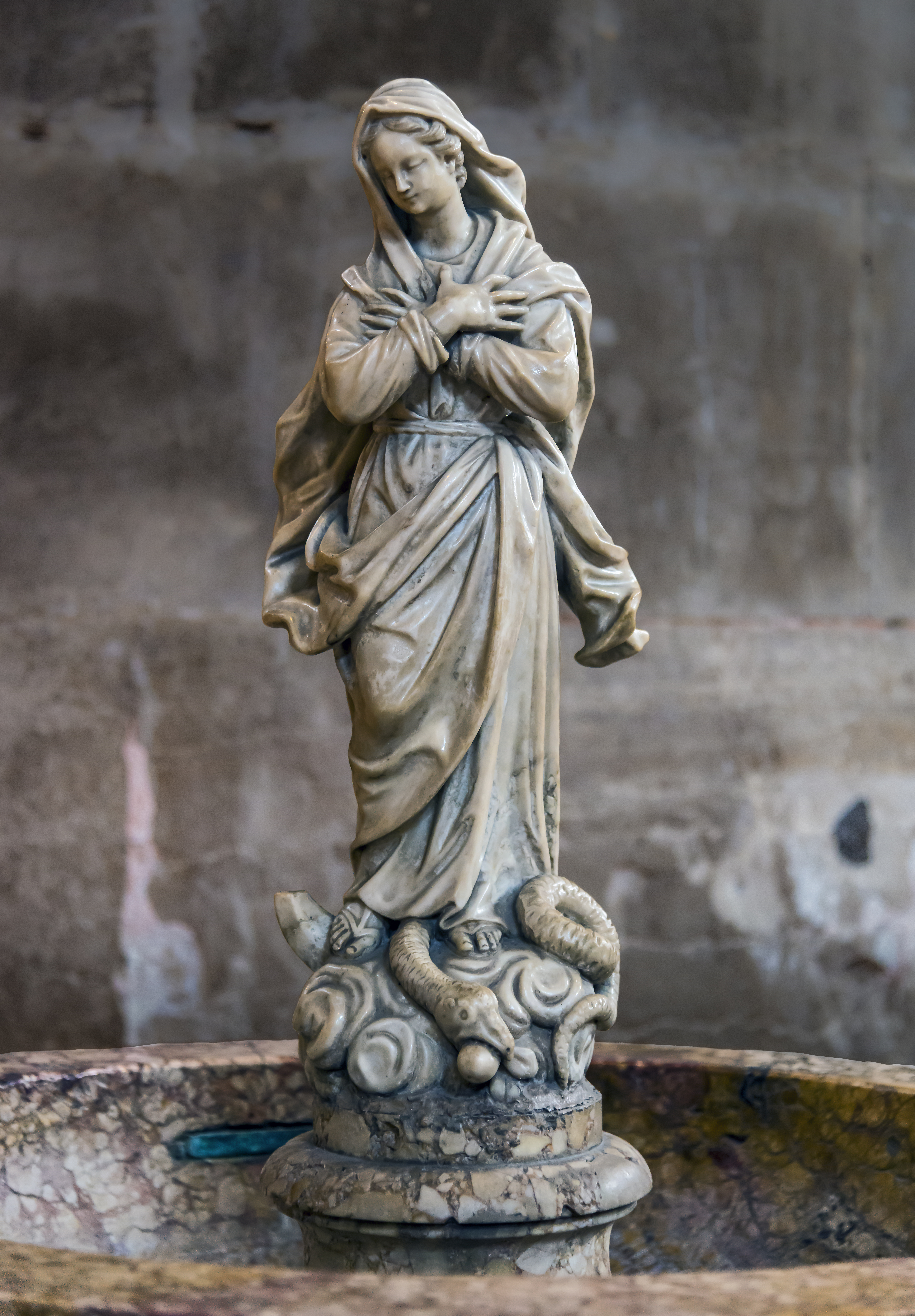 The left side of the nave of the Santa Maria Gloriosa dei Frari. Statue of Immaculate Conception adorning the holy water font, of the third left pillar. It comes from the hermitage of Mount Rua in the Euganean Hills and dates from the 18th century.